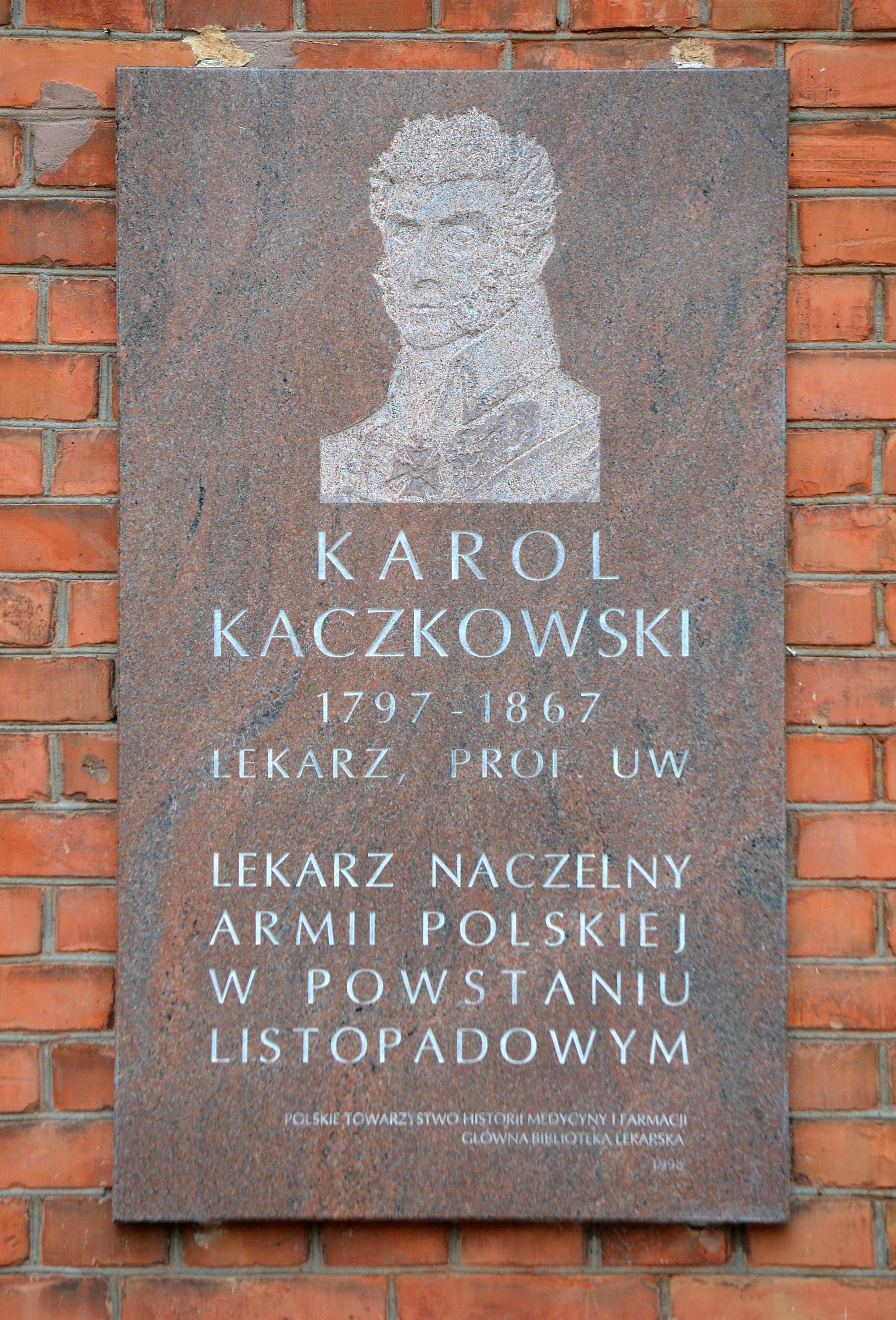 Plaque in memory of Karol Kaczkowski at 1A Jazdów Street in Warsaw